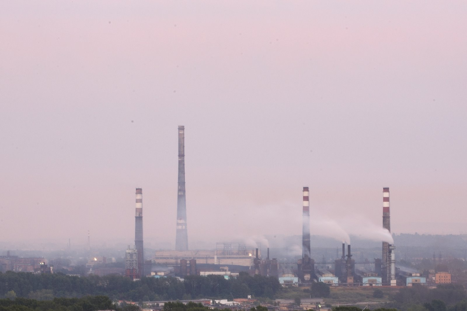 Industrial buildings in Novokuznetsk.